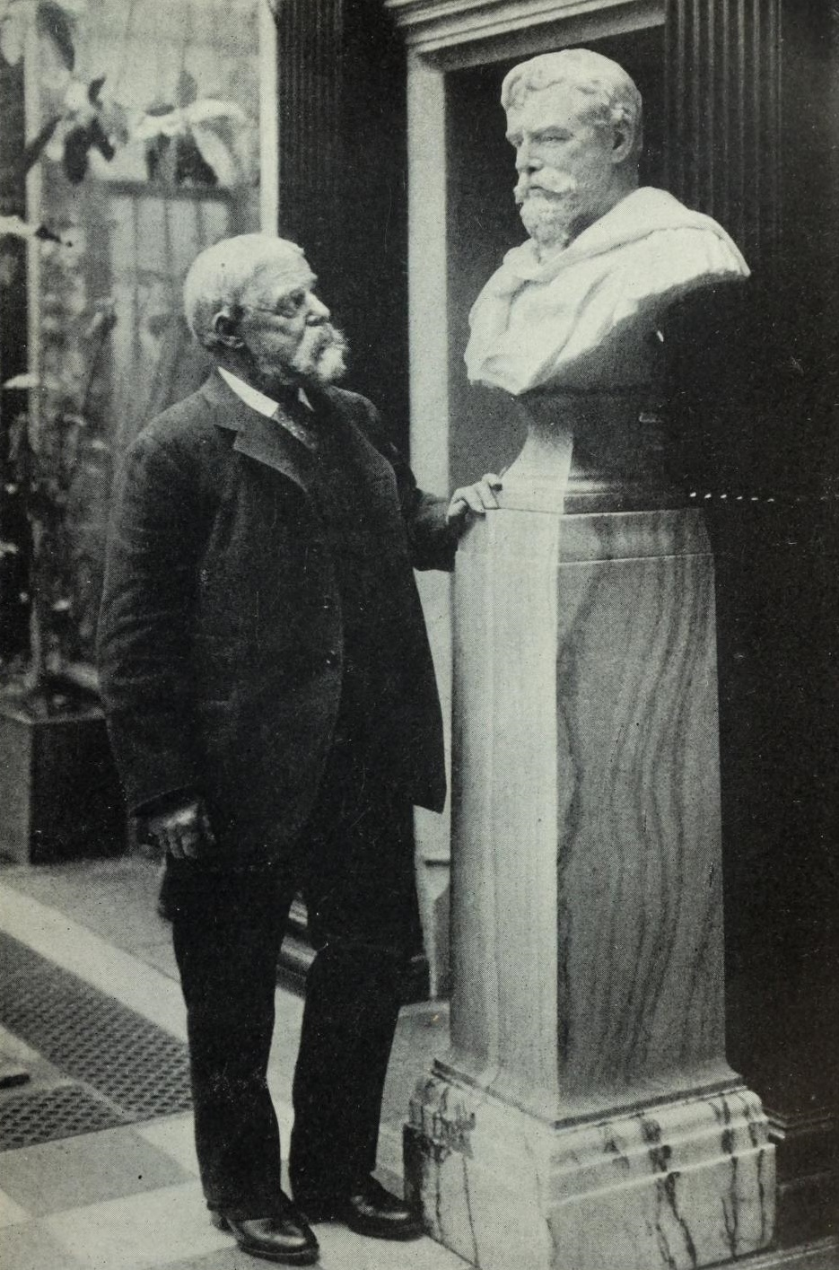 Portrait of Lawrence Alma-Tadema